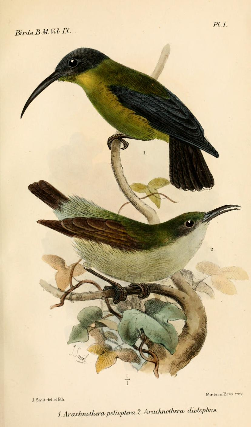 Slaty-headed Longbill or Grey-winged Longbill (above), Dwarf Longbill or Plumed Longbill (below)